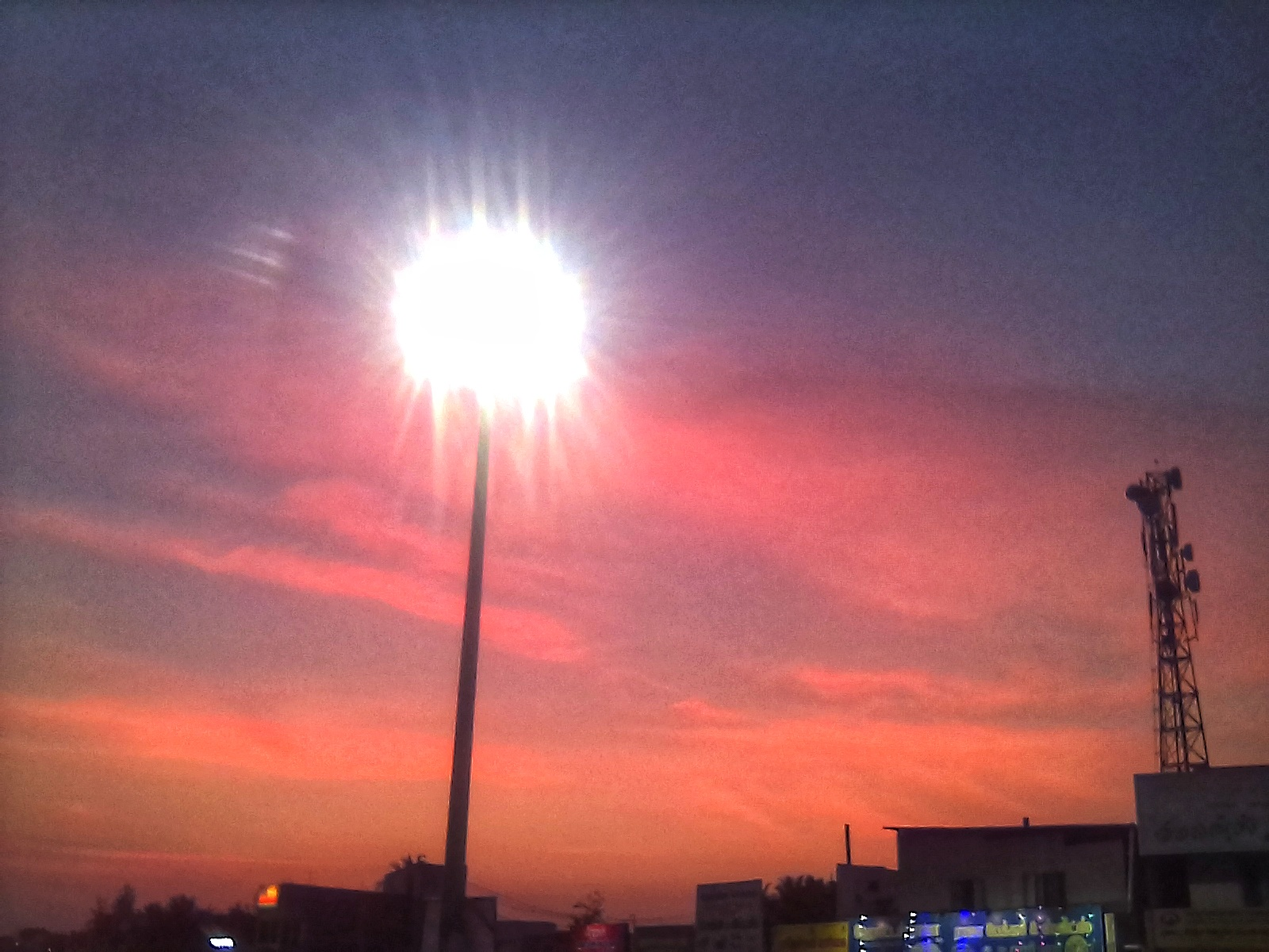 Orange pink sky tamilnadu south india cellphone tower